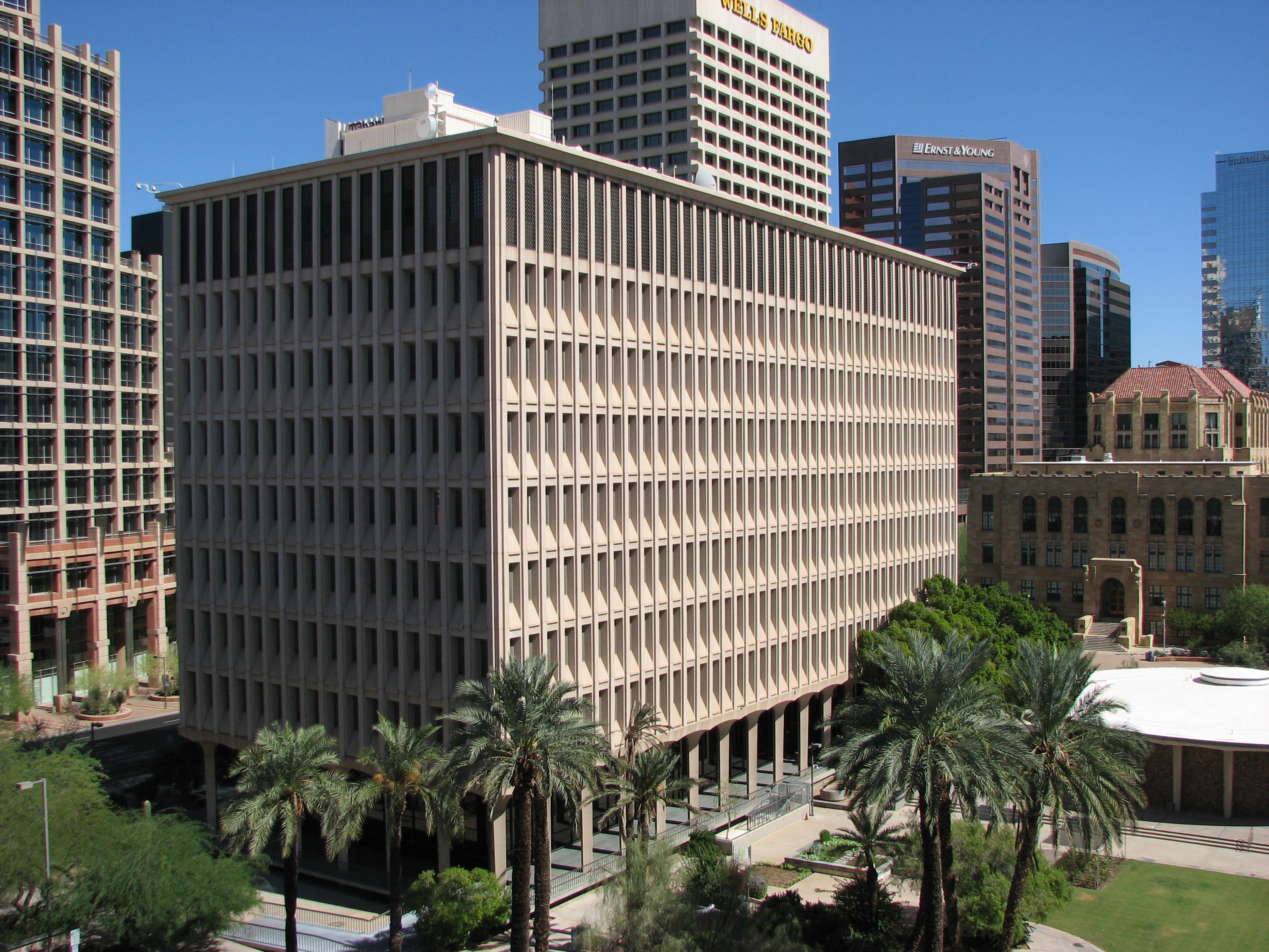 Calvin C. Goode Building in Phoenix, Arizona, on October 6, 2013.